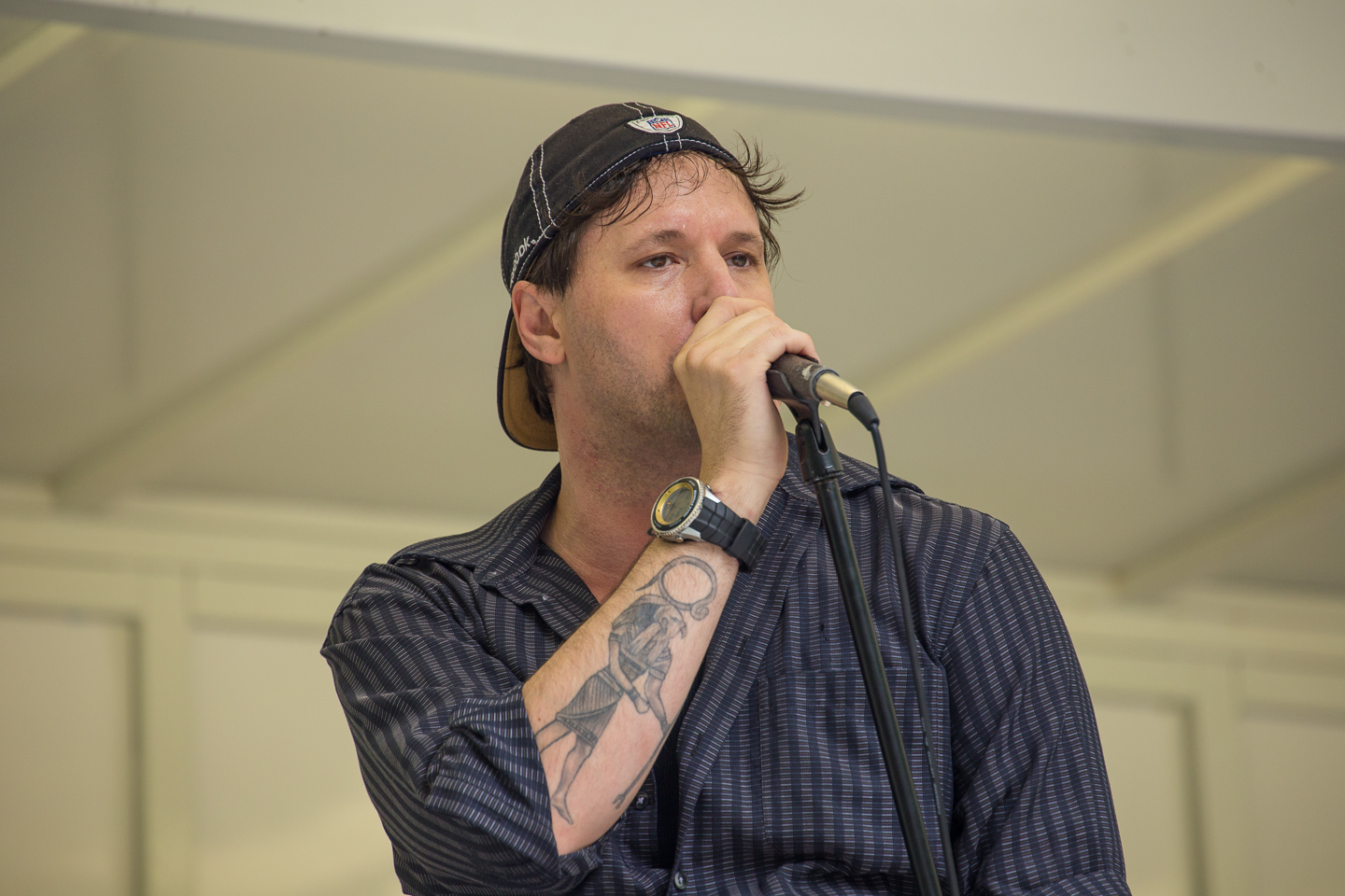 Harmonica player Jason Ricci performs on stage